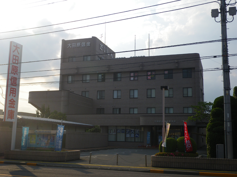 Ohtawara Shinkin Bank is Shinkin bank in Ōtawara, Tochigi, Japan.